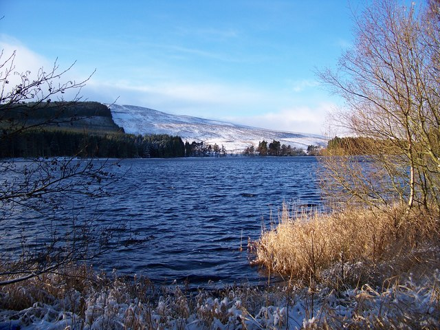 Catcleugh Reservoir A view of the west end of the reservoir towards commercial forestry on the surrounding hillsides.